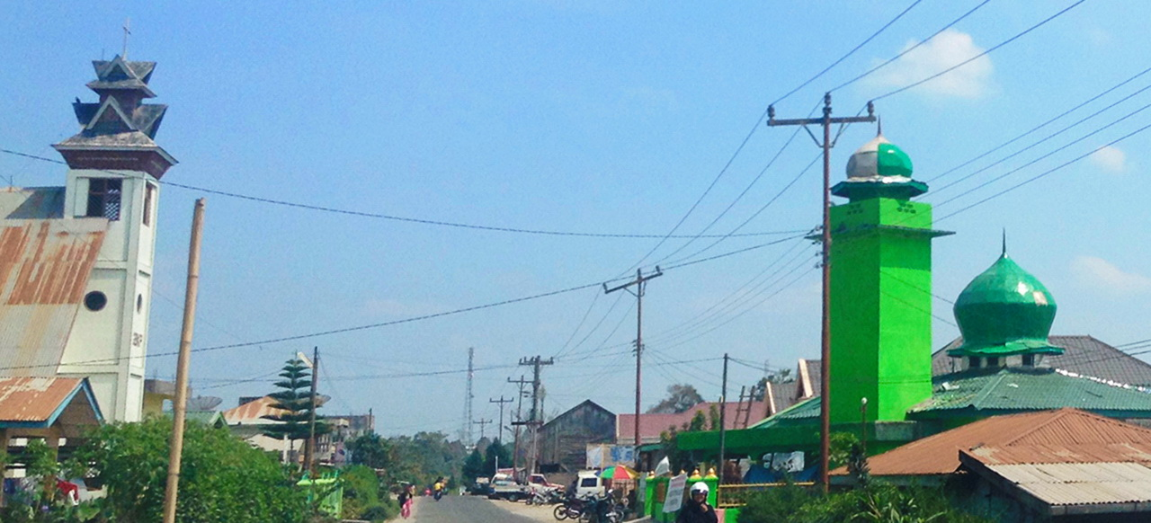 Village of Perteguhen, Simpang Empat, Karo